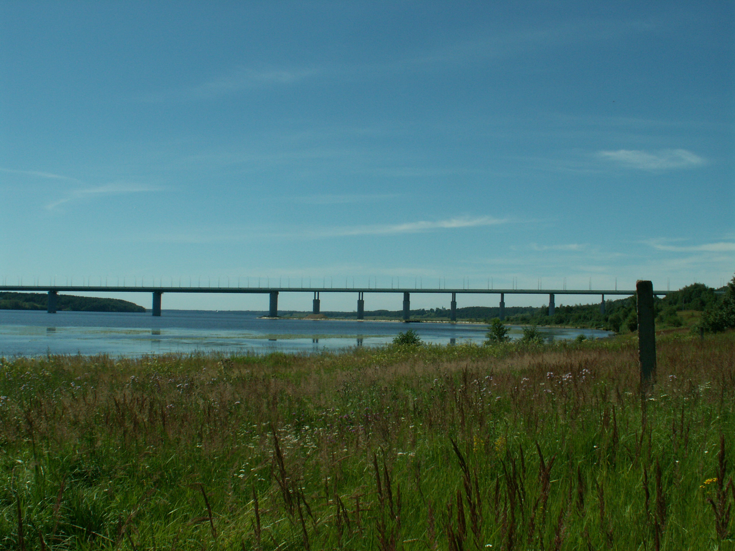 Brige in Kineshma